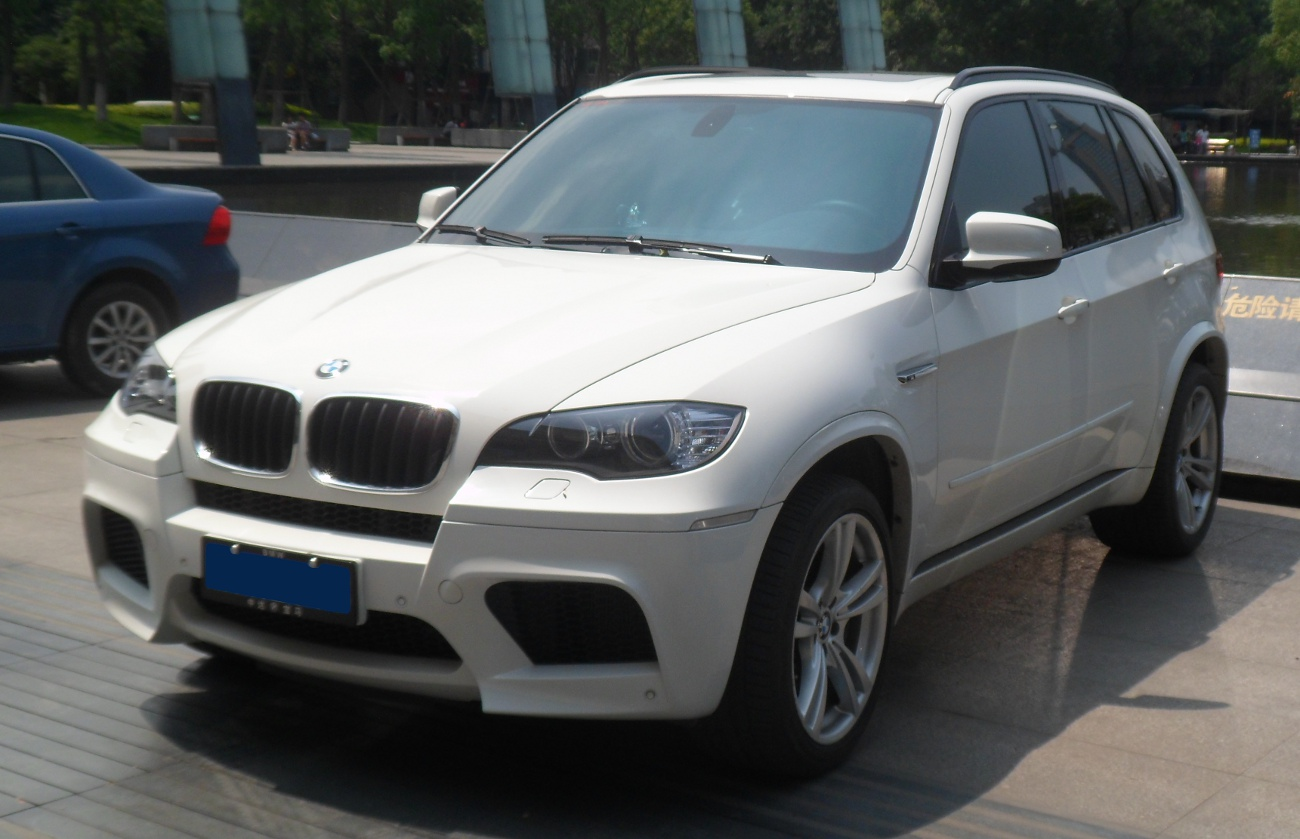 BMW X5 E70 M photographed in Chengdu, Sichuan province, China.